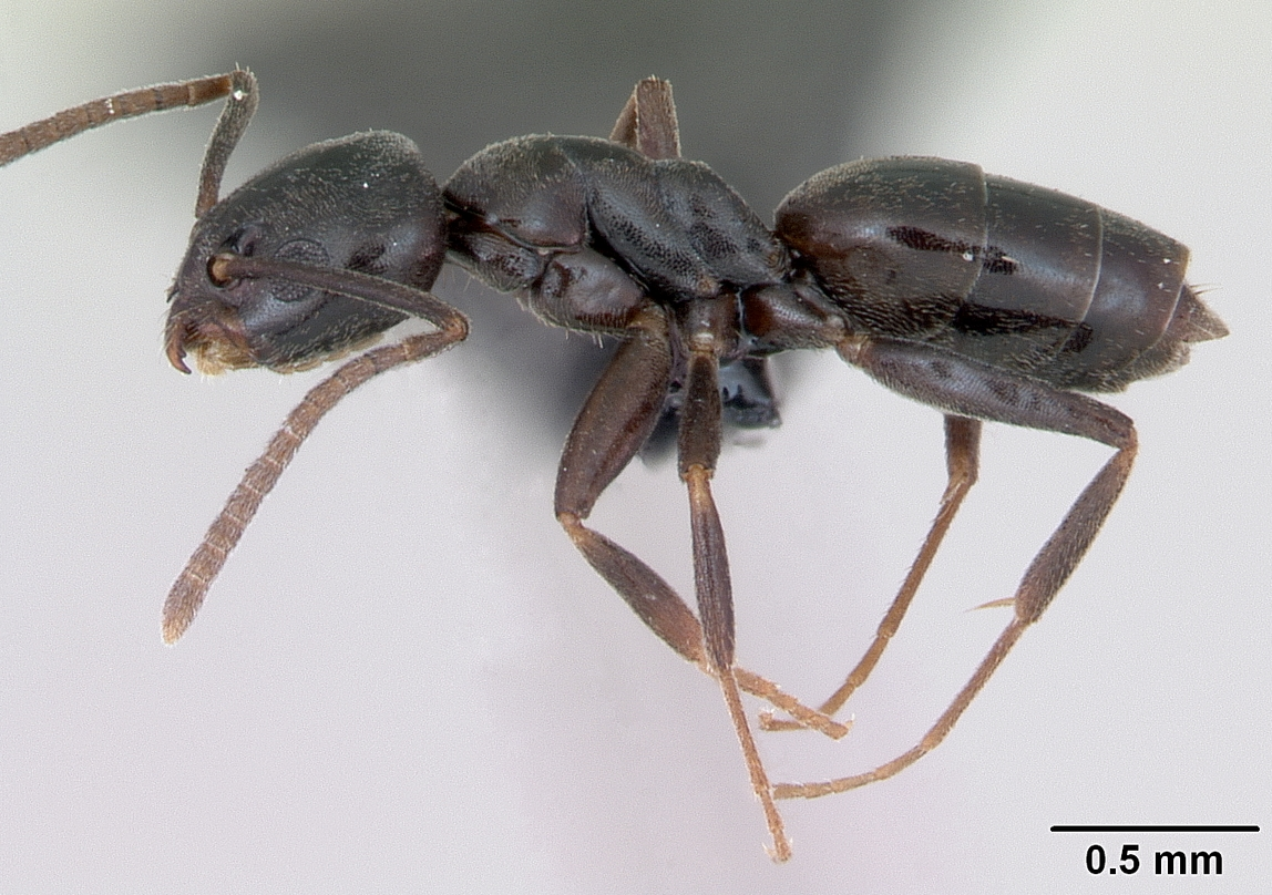 Profile view of ant Tapinoma erraticum specimen casent0173199.